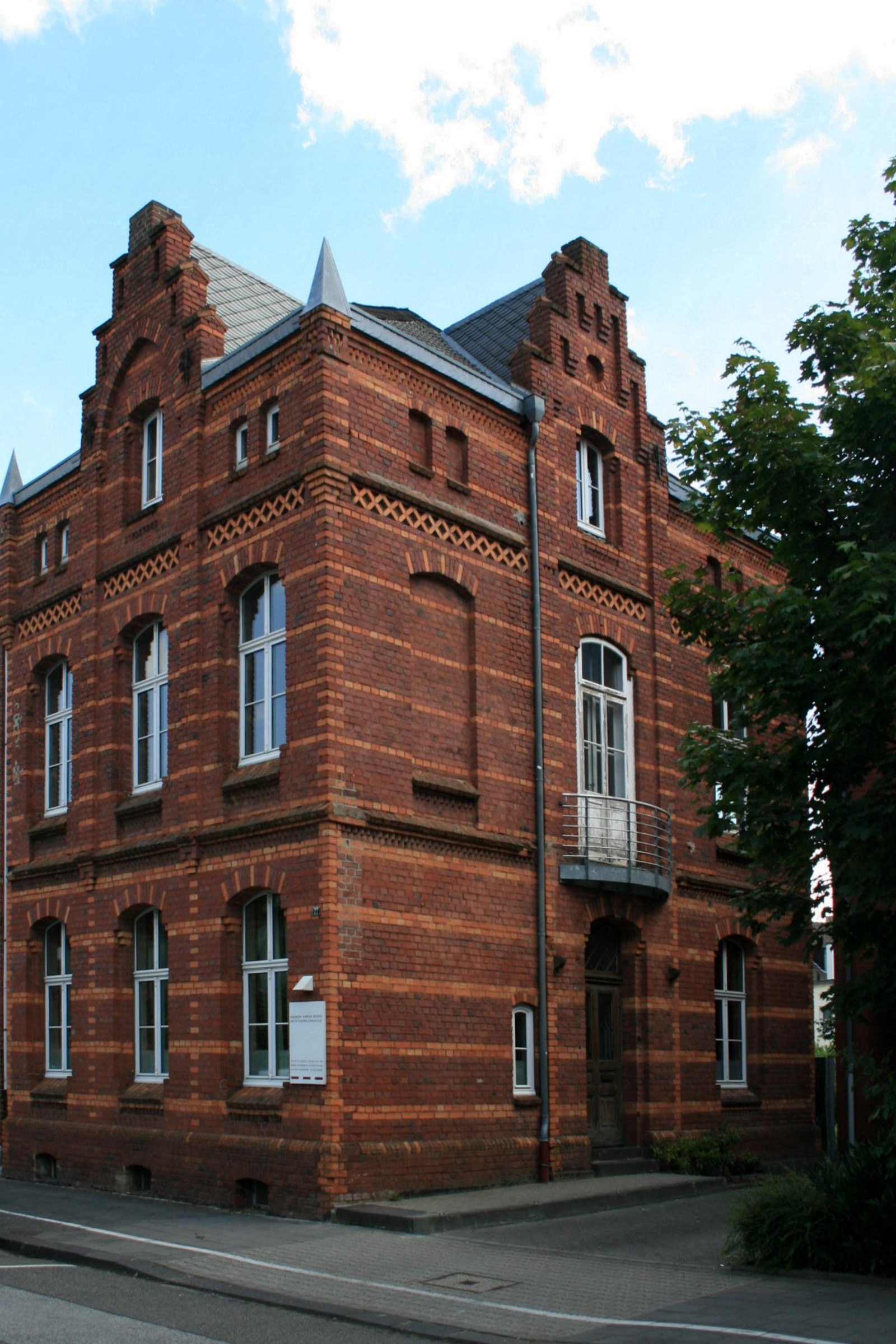 Cultural heritage monument No. A 033 in Mönchengladbach